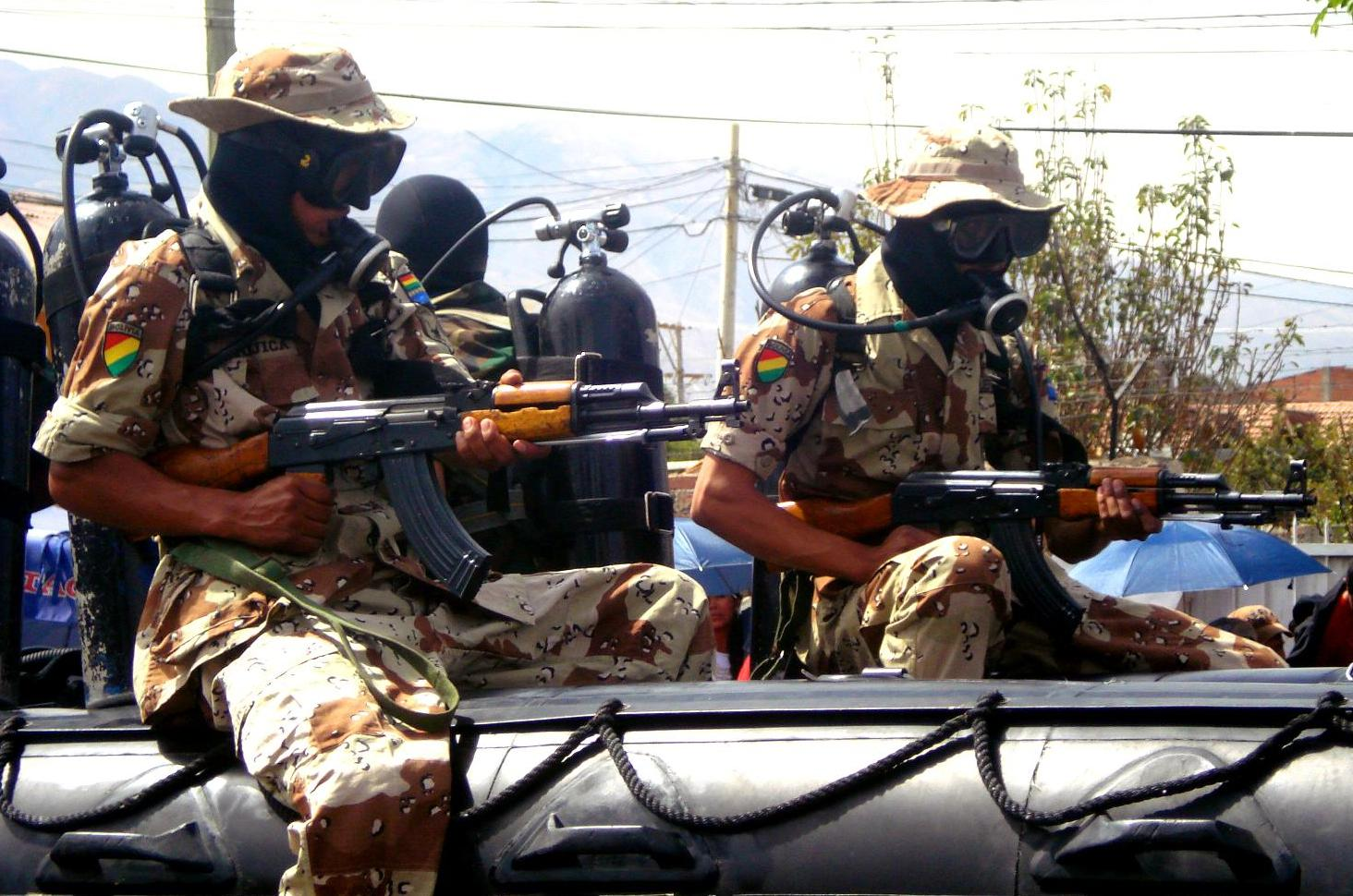 Bolivian Marines sitting on inflatable boats, carrying Type 56 assault rifles and snorkeling during the military parade in Cochabamba.